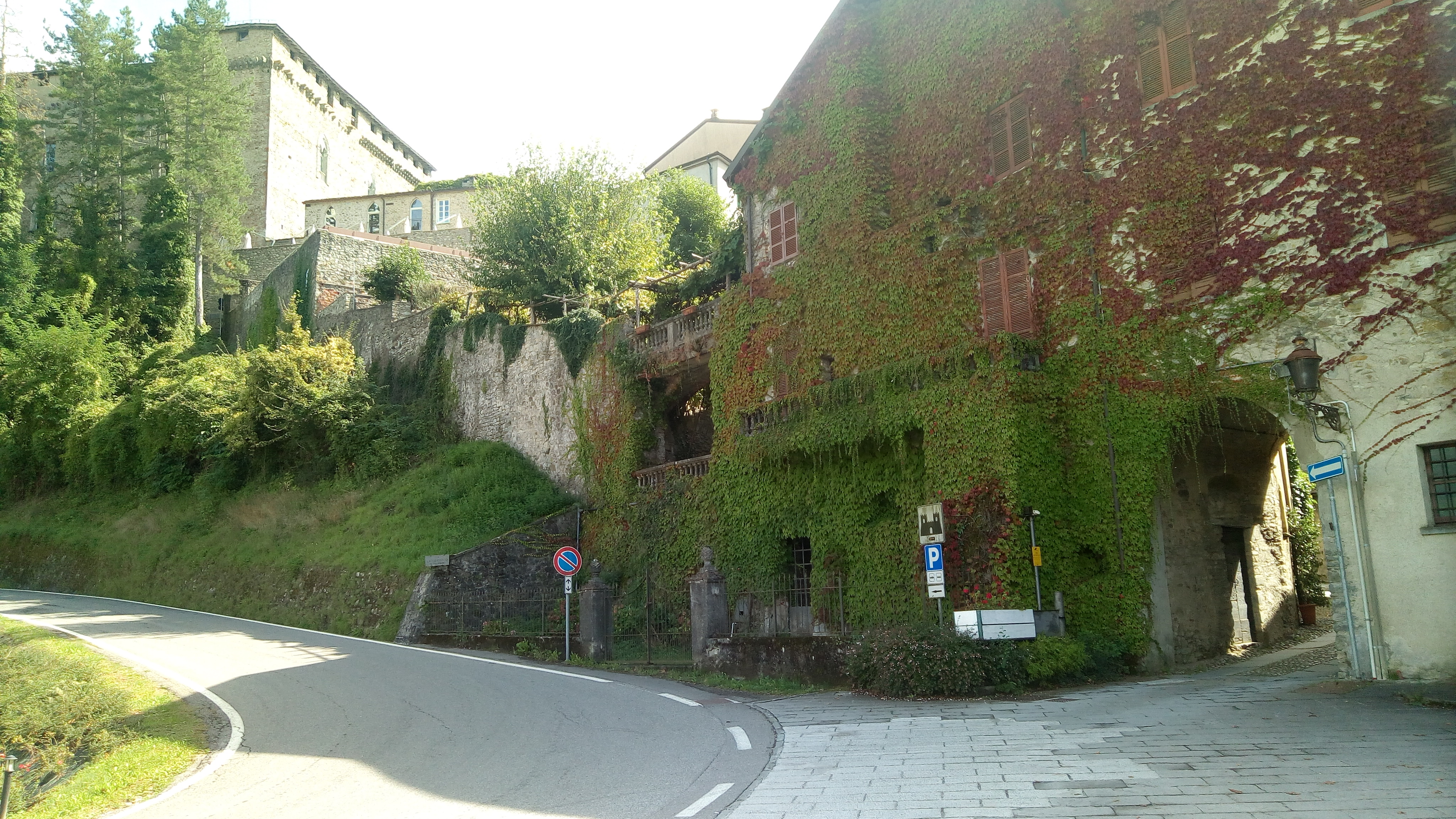 Compiano